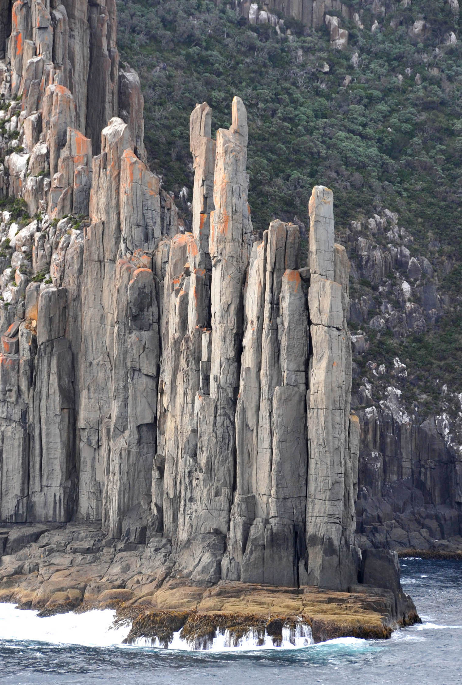 THIS SIGHTS CAN BEST BE APPRECIATED FROM THE SEA. THIS PICTURE WAS TAKEN HEAD ON AND HAS BETTER LIGHTING BUT ALL PICTURES WERE TAKEN LATE IN THE DAY AROUND 6 P.M.; SEE "TASMAN NATIONAL PARK" ON WIKIPEDIA